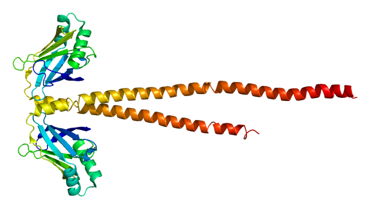 Structure of the XRCC4 protein. Based on PyMOL rendering of PDB 1fu1.